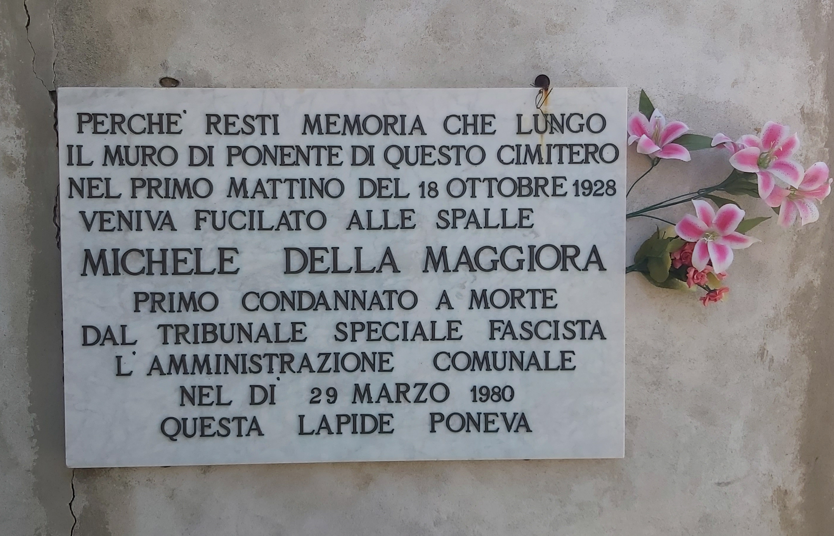 plaque commemorating the shooting of Michele Della Maggiora